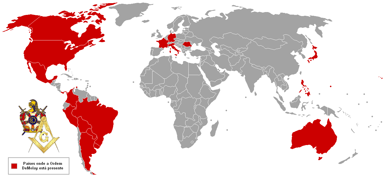 Countries where Order of DeMolay is active.